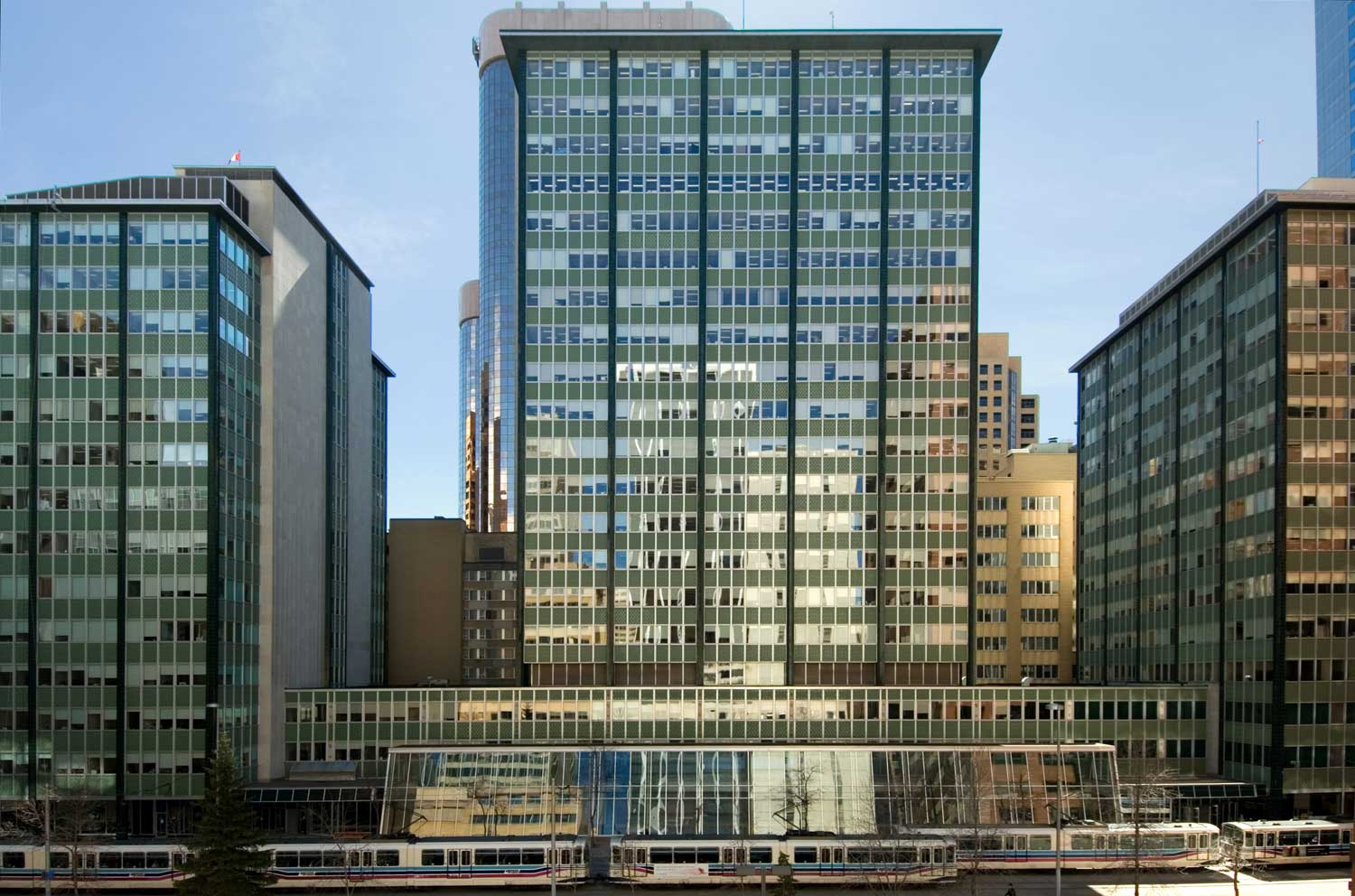 The Elveden Centre at 707-727 7th Ave SW in Calgary, Alberta. Photo by Chuck Szmurlo taken April 13,2007 with a Nikon D200 and a Nikon 12-24 f4 lens.